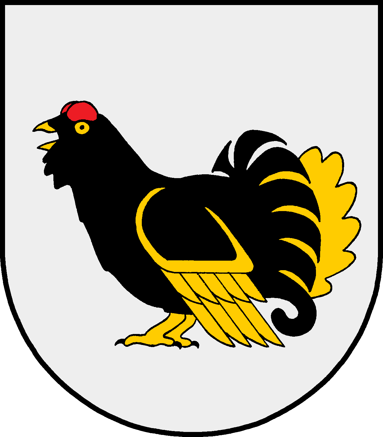 Coat of arms of the municipality Lentföhrden in Schleswig-Holstein, Germany.